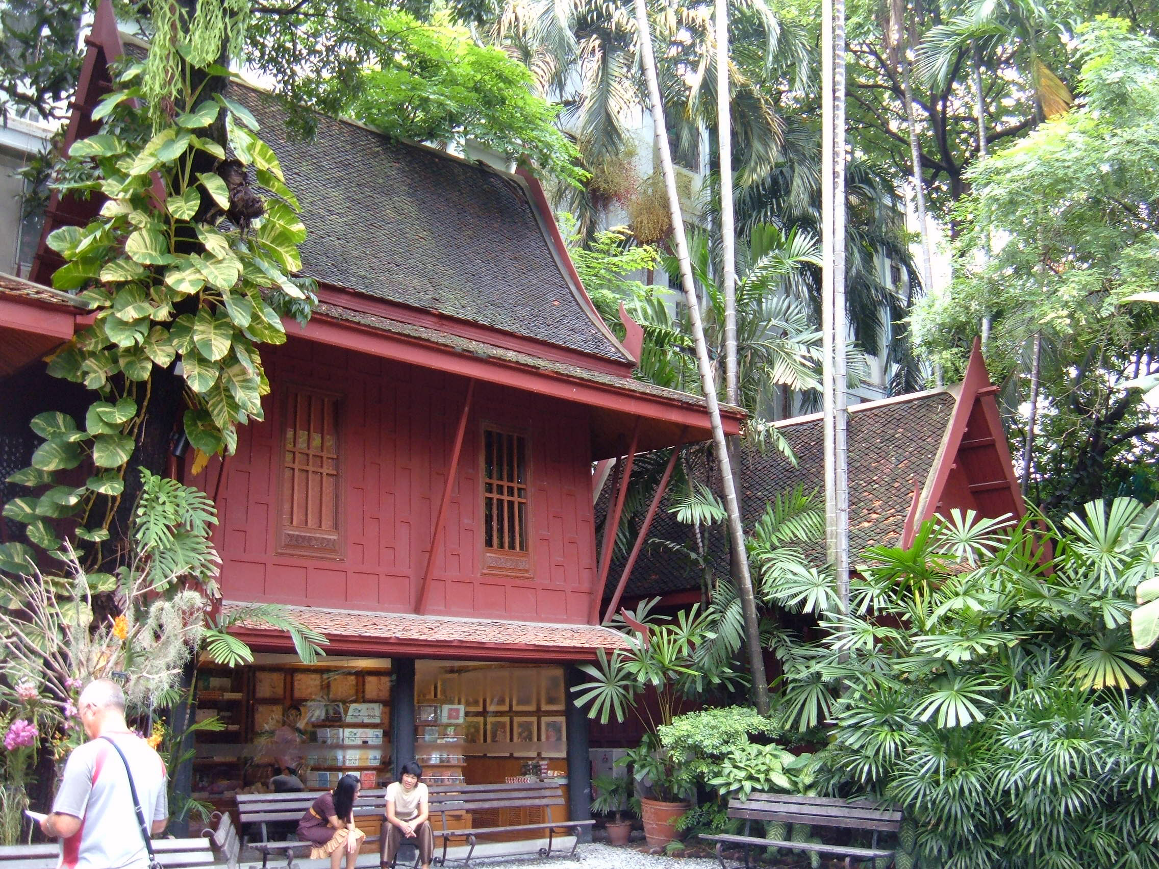 A section of the courtyard of the Jim Thompson House Museum in Bangkok, Thailand. Photography of the interior of the museum is forbidden and visitors must leave their cameras behind when touring the complex.